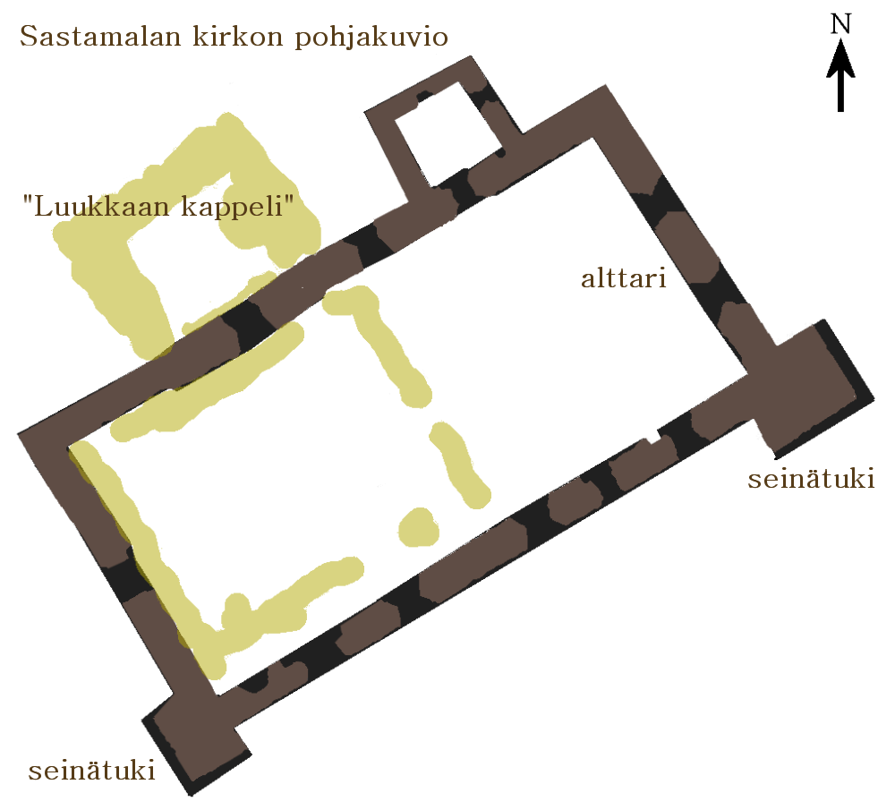 Chart of medevial church in Sastamala Finland